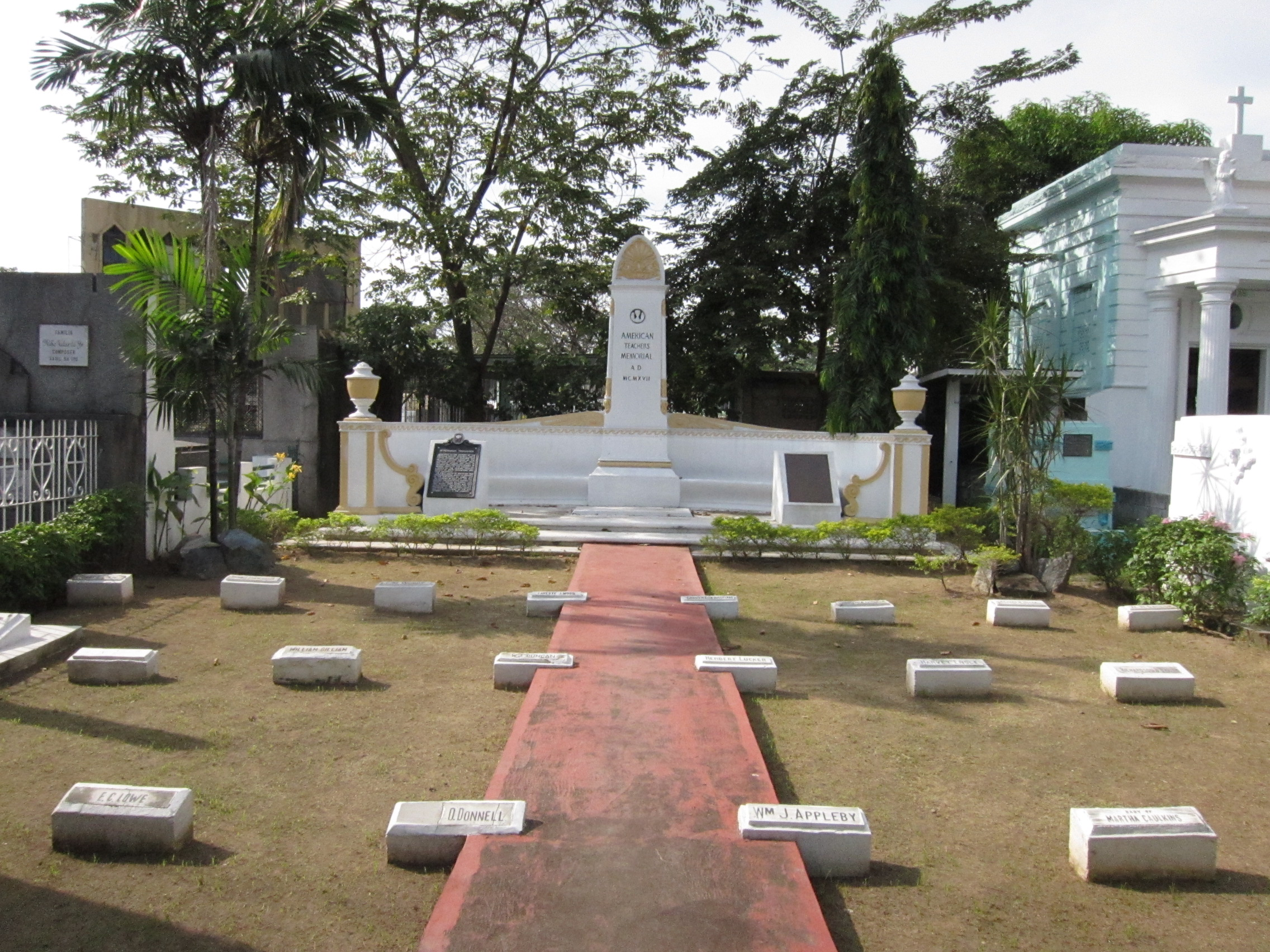 Burial plot of the Thomasites in Manila, Philippines